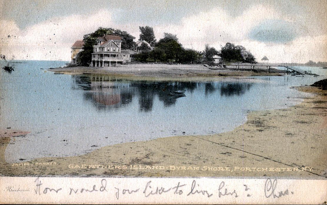 Gaertners Island, Byram Shore, Port Chester,THIS IS NOT PORT CHESTER